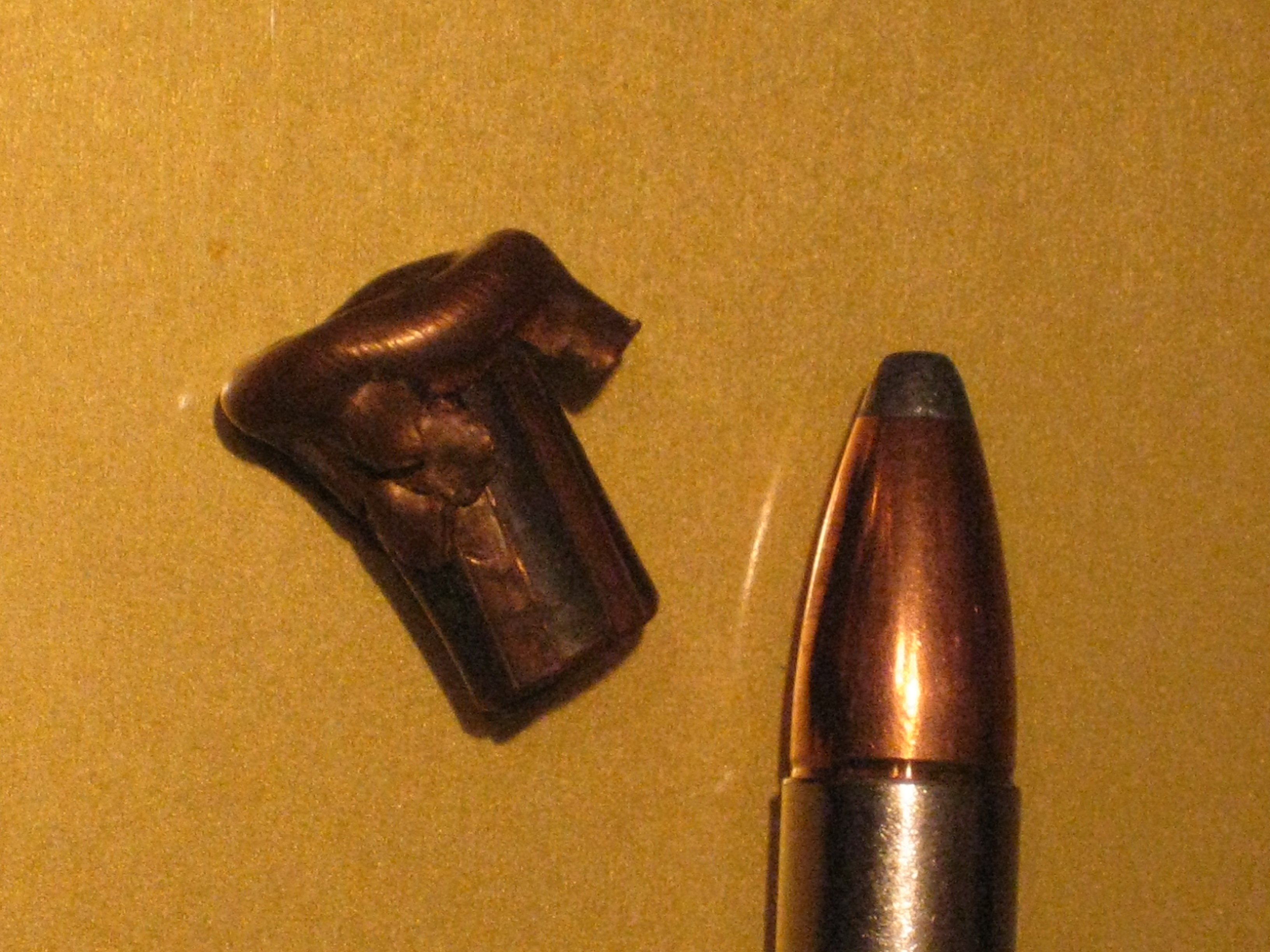 .375 H&H Nosler Partition Bullet, New and Deformed